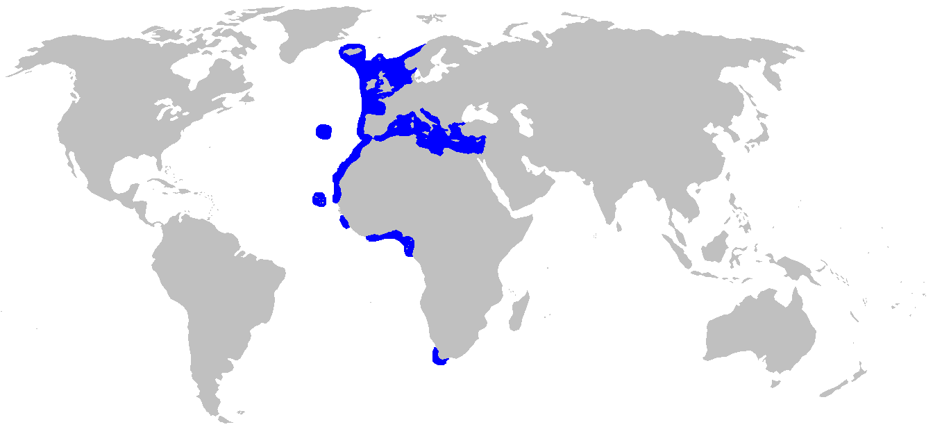 Distribution map for Etmopterus spinax